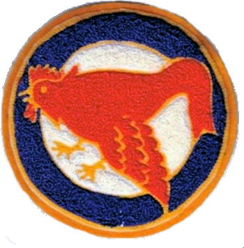 37th Photographic Reconnaissance Squadron - Emblem